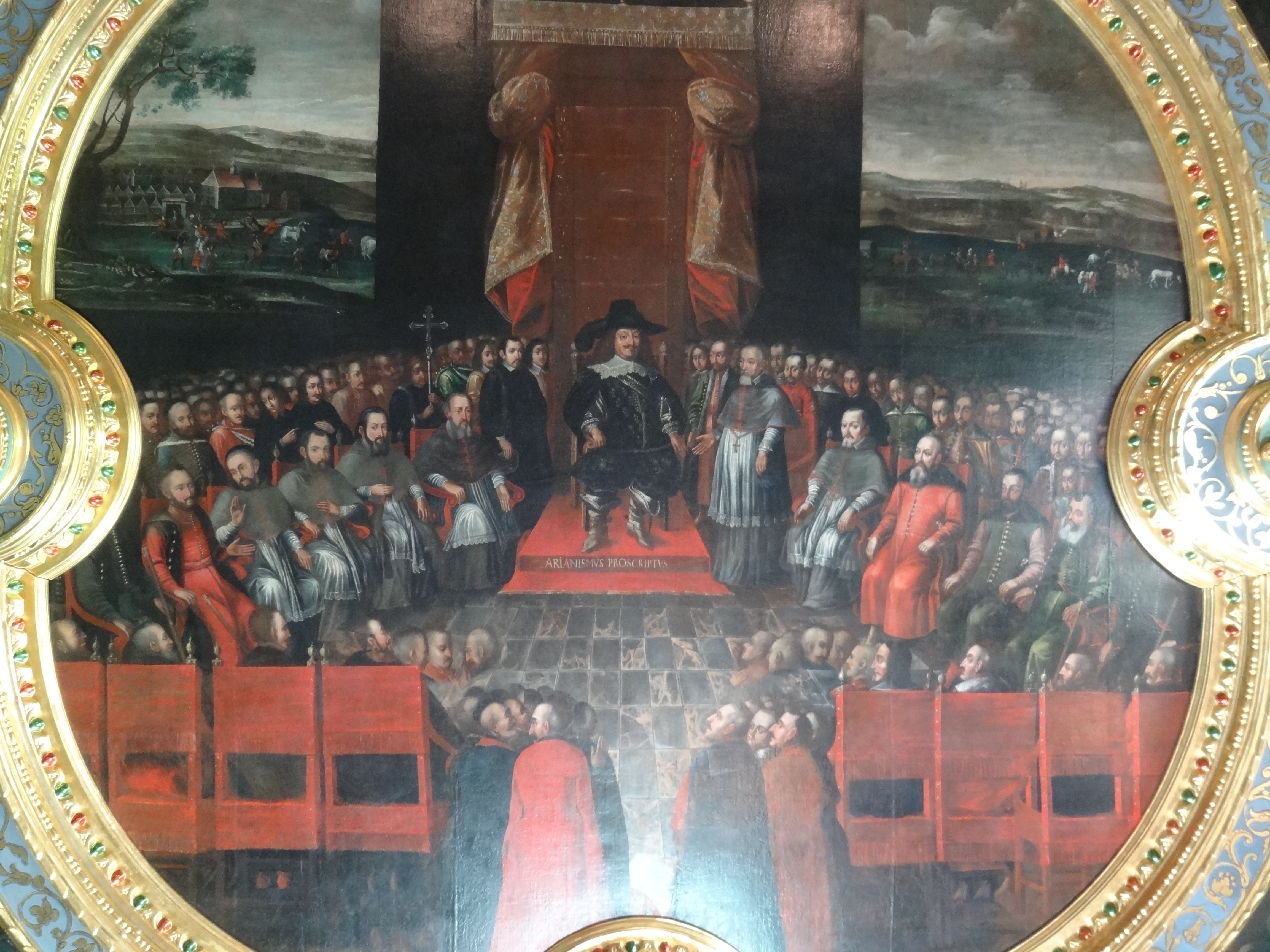 Interior of the Bishops Palace in Kielce 01200